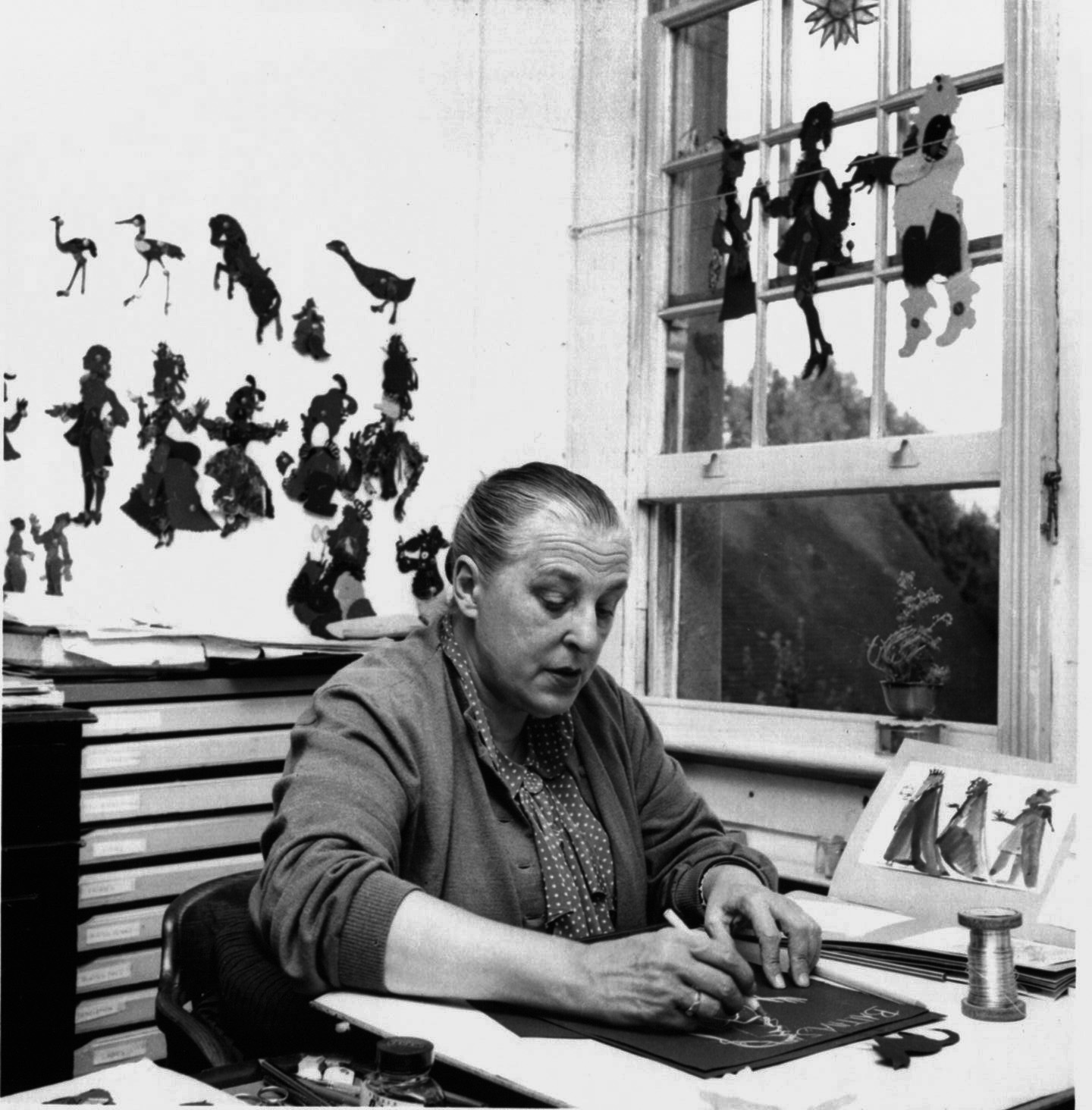 The German silhouette animation film artist Lotte Reiniger in London